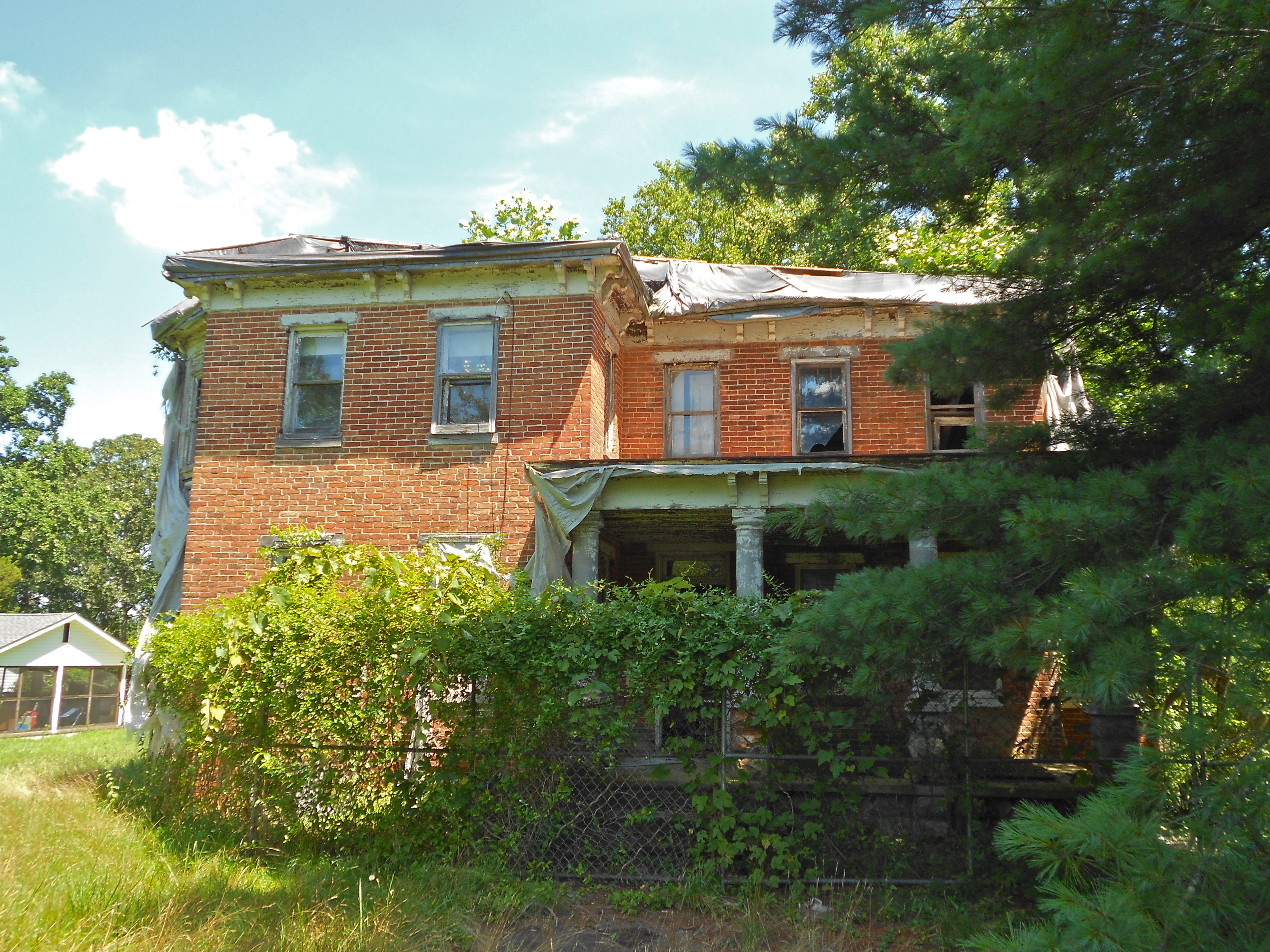 Moshe Bayuk House (in terrible condition) on the NRHP since March 27, 2012 , at 984 Gershal Ave. (north of Landis Ave. west of NJ 55) in Pittsgrove Township, Salem County, not far from Vineland, NJ